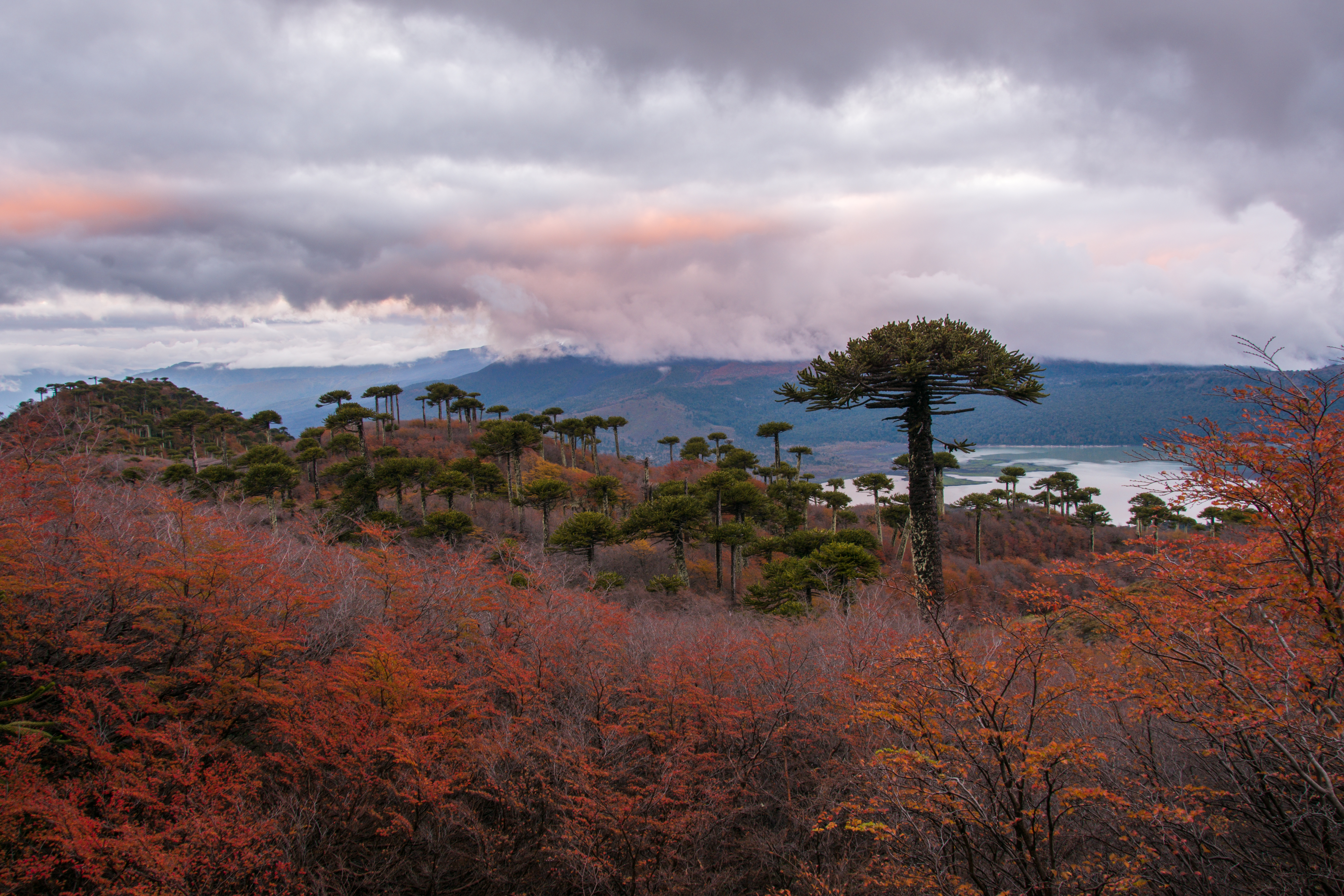 A long climb through the forest to see the sunrise among the colorful autumn